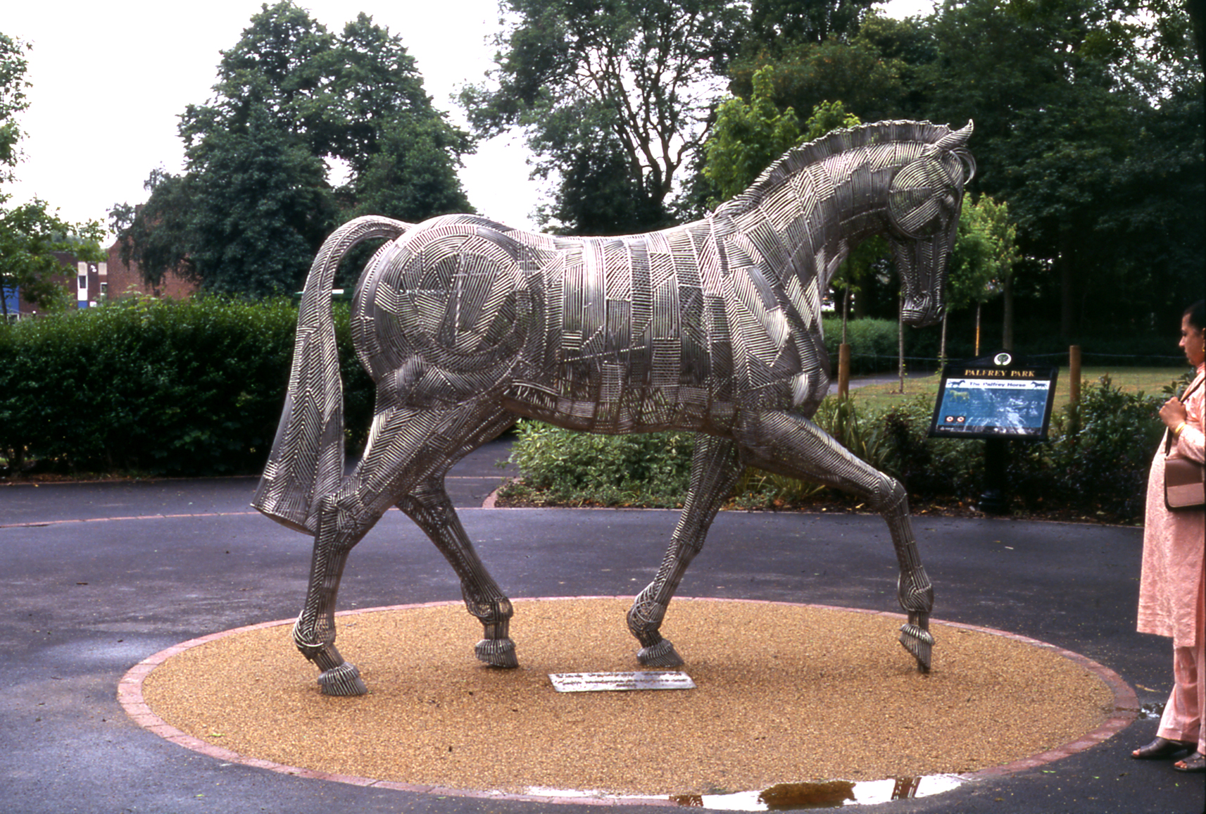 Stainless steel horse sculpture for Palfrey Park in Walsall. Created at the John McKenna Sculpture studio and Commissioned by Walsall MBC.